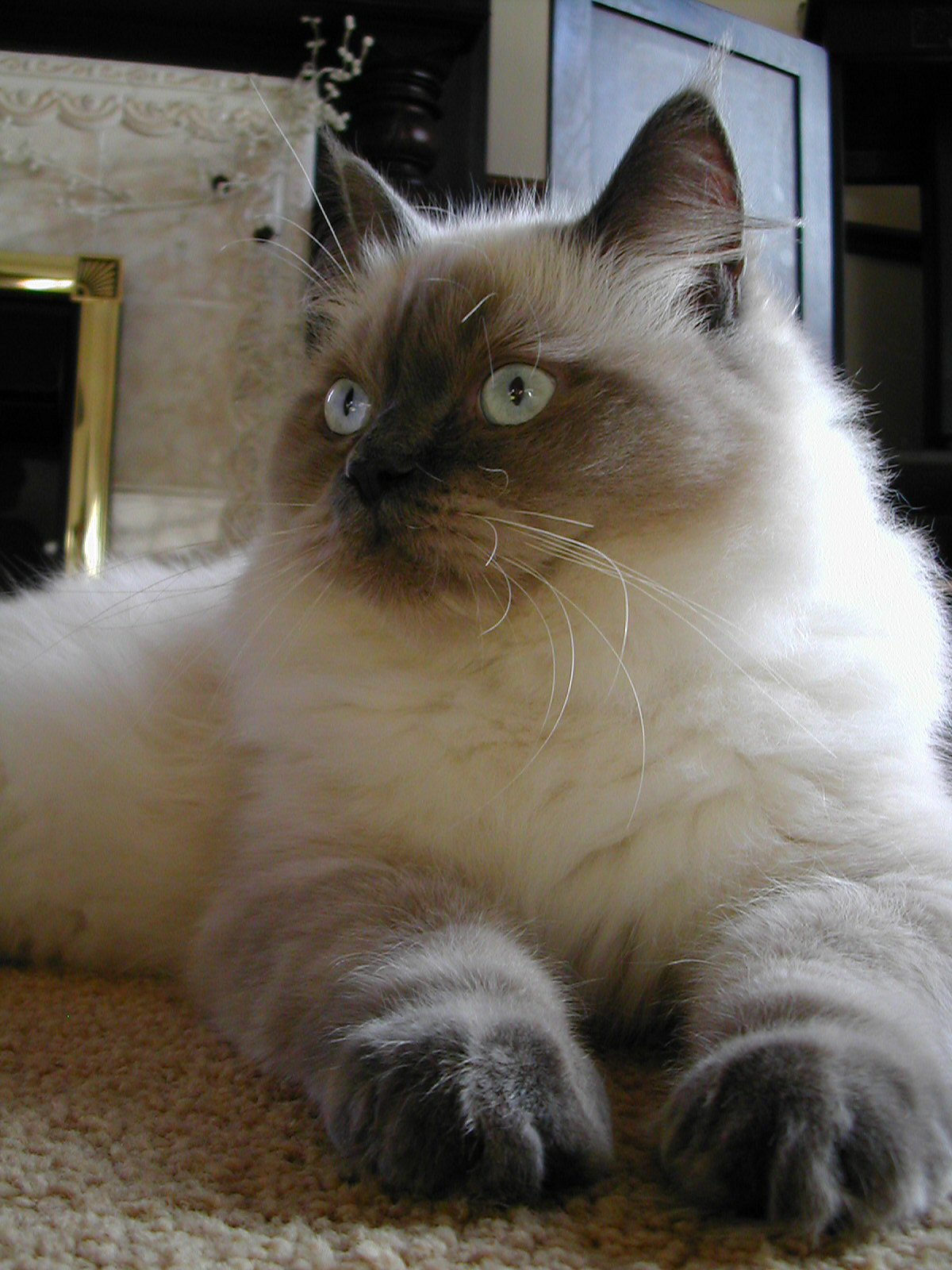 "Mork"; Ragdoll - Blue Colorpoint